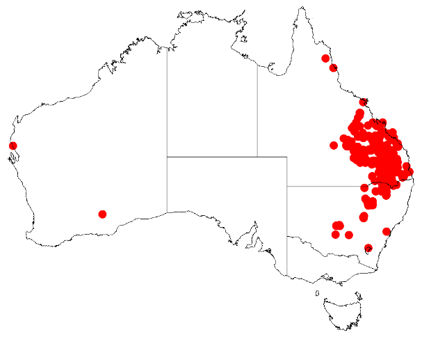 Acacia conferta: Occurrence data from Australasian Virtual Herbarium downloaded using on 8 December 2018